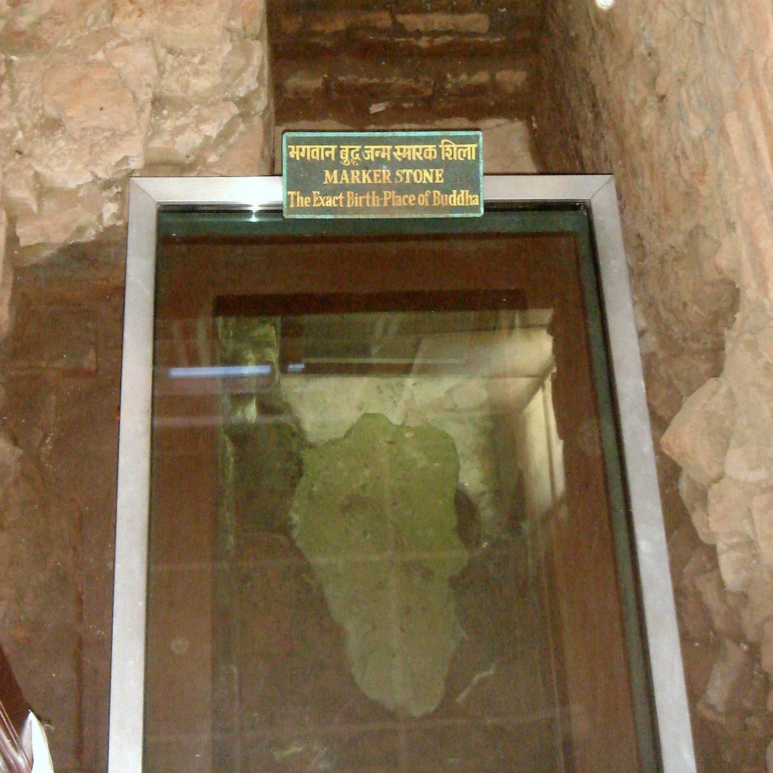 The exact birth place of Gautama Buddha, in Lumbini, Nepal.